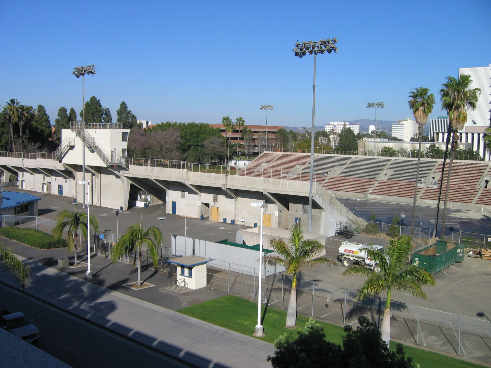 Football & Basketball Facilities Santa Ana Downtown Stadium